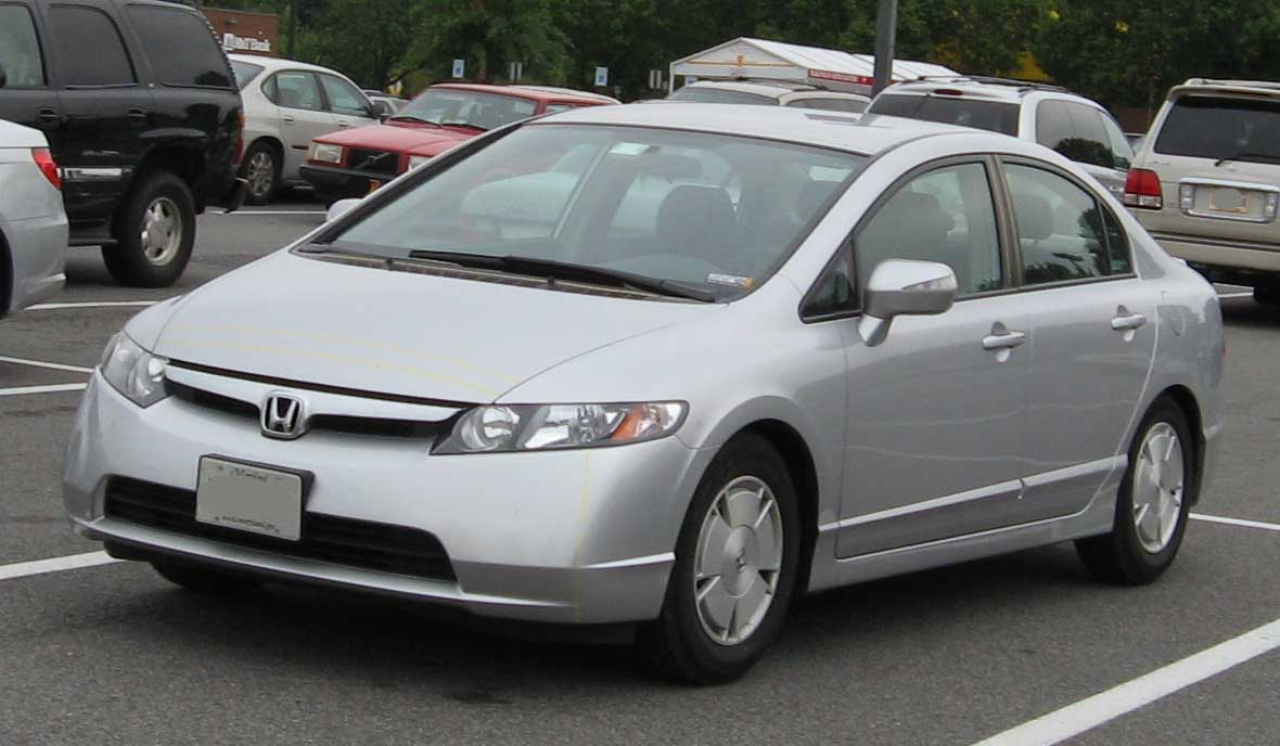 2006-2007 Honda Civic photographed in USA.